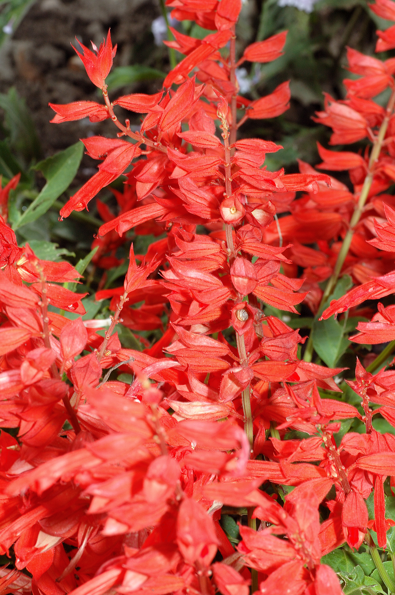 This image shows a close-up shot of a Scarlet Sage plant (Salvia splendens).